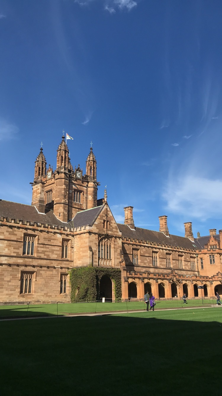 The is a front view of the Quad Building in the University of Sydney